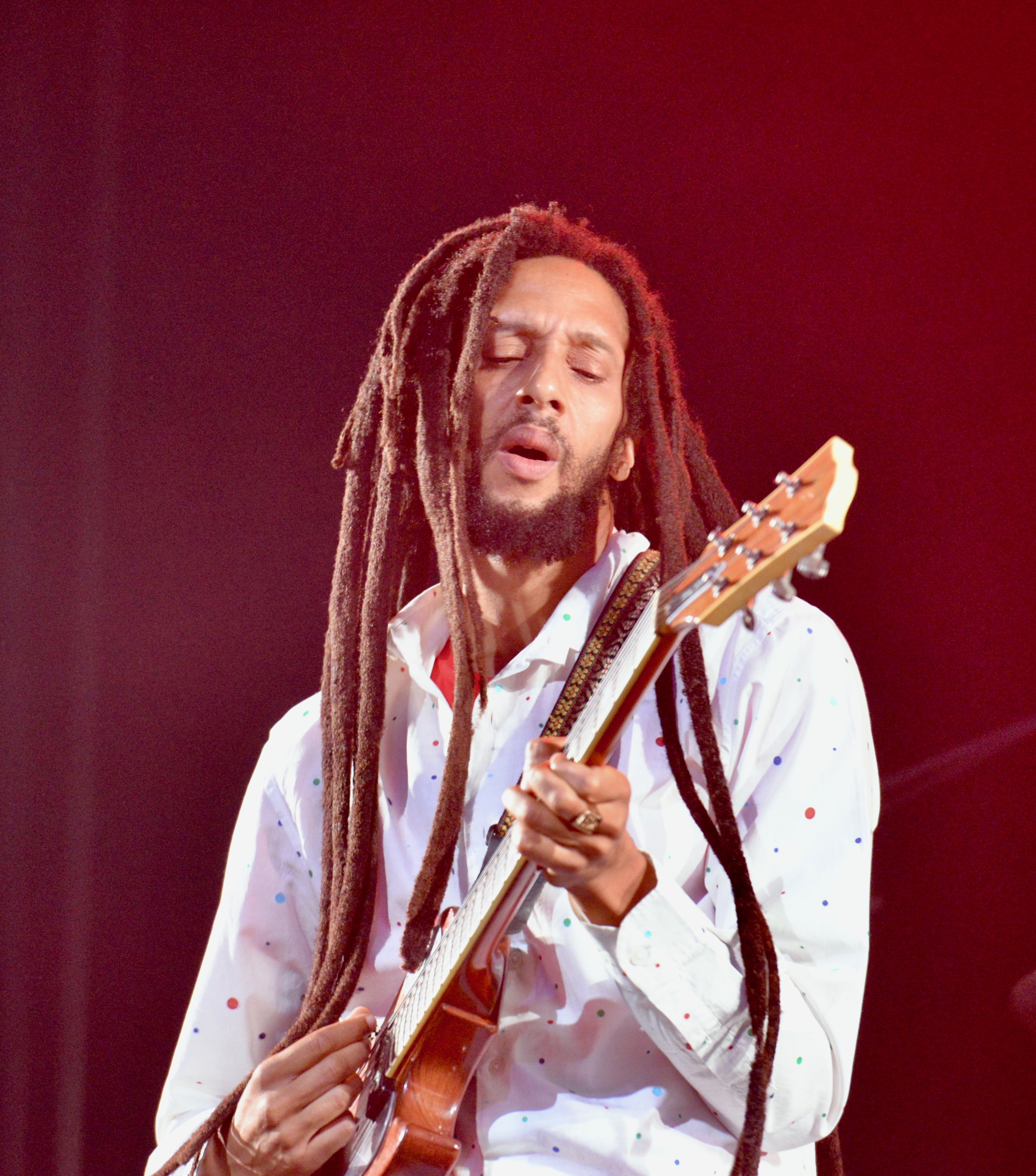 Julian Marley in concert at Sfinx festival July 29 2018